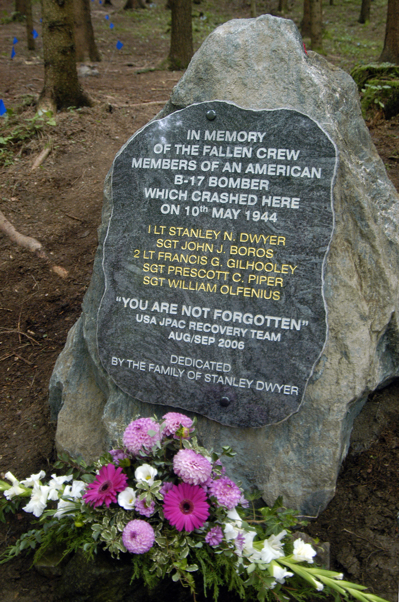 A memorial stone near the Vostenhof, Austria, site of a B-17 bomber crash recognizes the sacrafice of the crew. The stone was placed by 1st Lt. Stanley Dwyer's family, who were in Austria to witness the excavation of the crash site and attend a memorial service Aug. 27. An 18-member JPAC team, including a forensic anthropologist, explosive ordnance disposal technician and field medic, from Hickam Air Force Base, Hawaii, returned Oct. 1 after 45 days in Austria attempting to recover the remains of 1st Lt. Stanley Dwyer and gunner Sgt. John Boros who were lost in the crash May 10, 1944. The mission of JPAC is to achieve the fullest possible accounting of all Americans missing as a result of the nation's past conflicts.